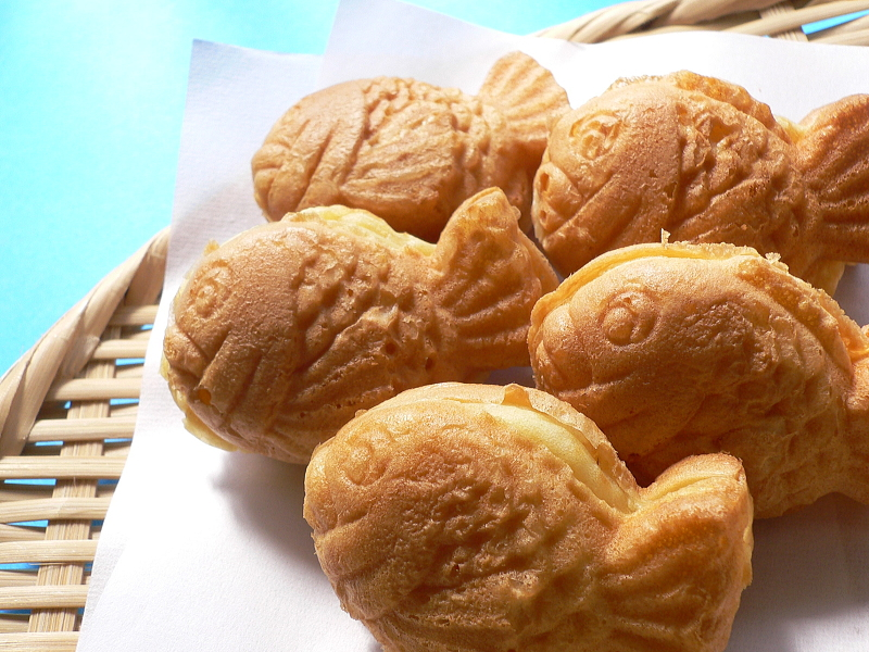 Waffle of Japan style of sea bream's shape. 5 centimeters, inside is a chocolate taste and a custard taste.